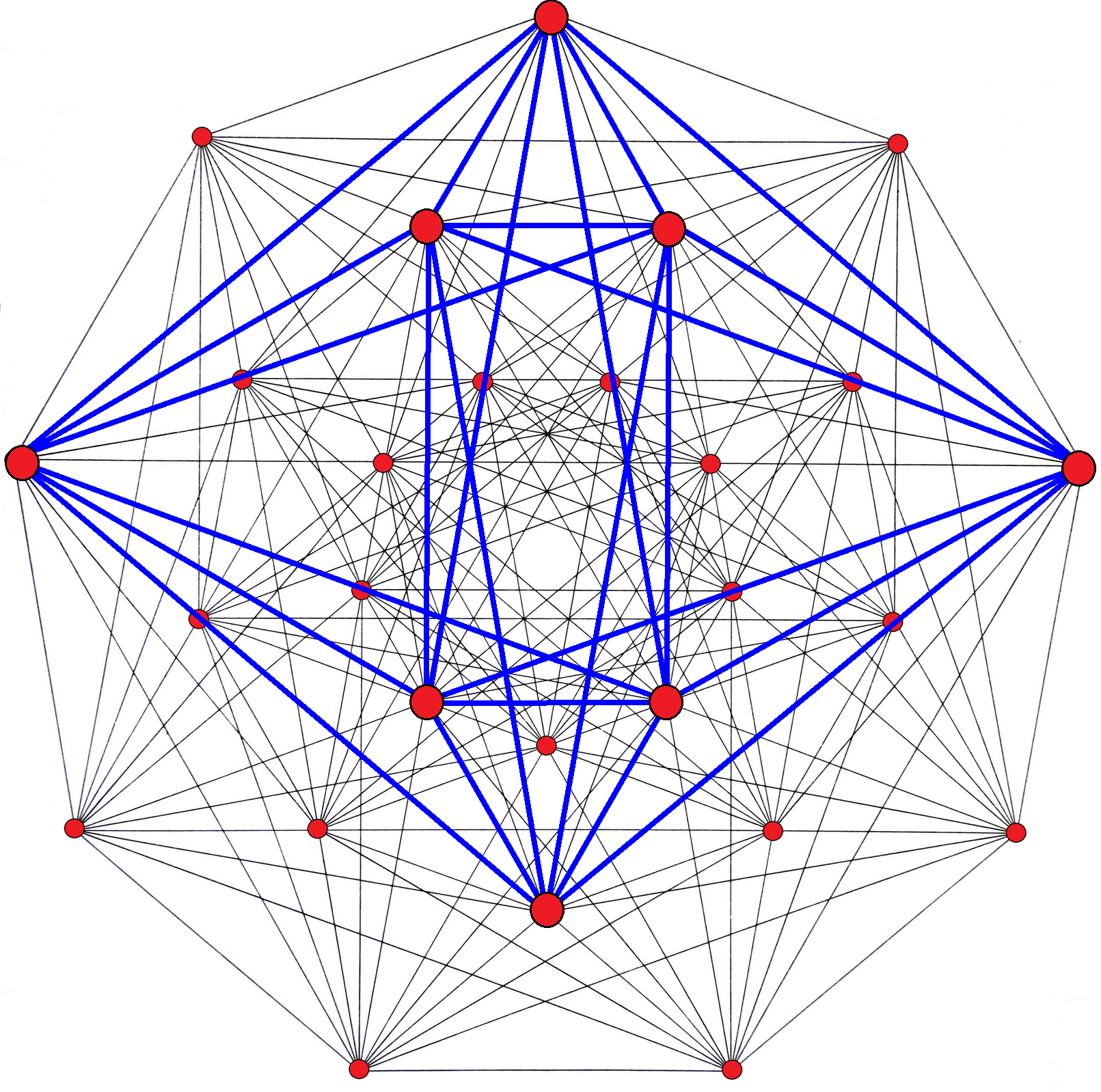 File:Complex_polyhedron_3-3-3-3-3.png with one 3{3}3 face edge-outlined blue